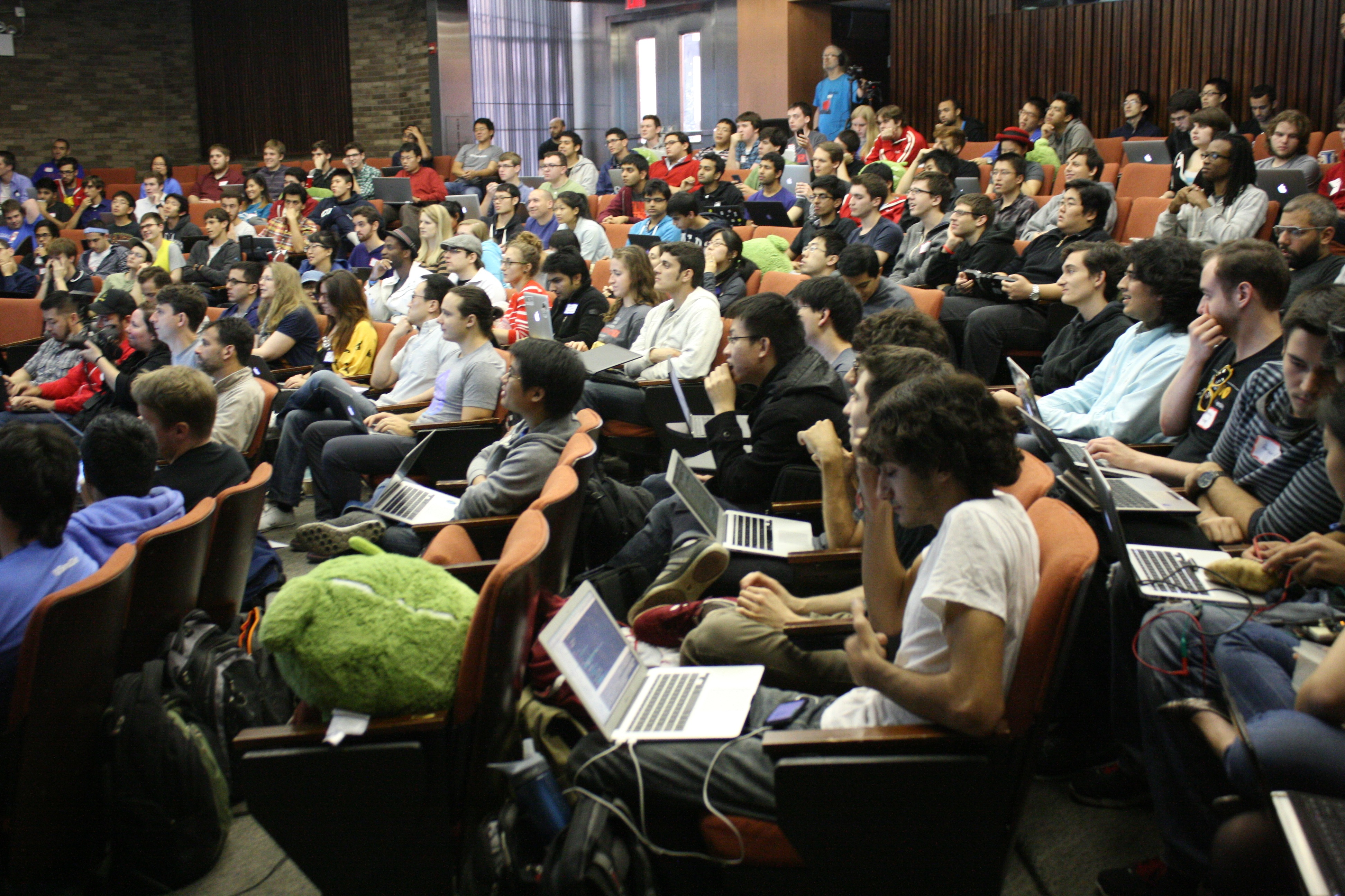 Attendees at the Spring 2013 hackNY Hackathon (in New York).